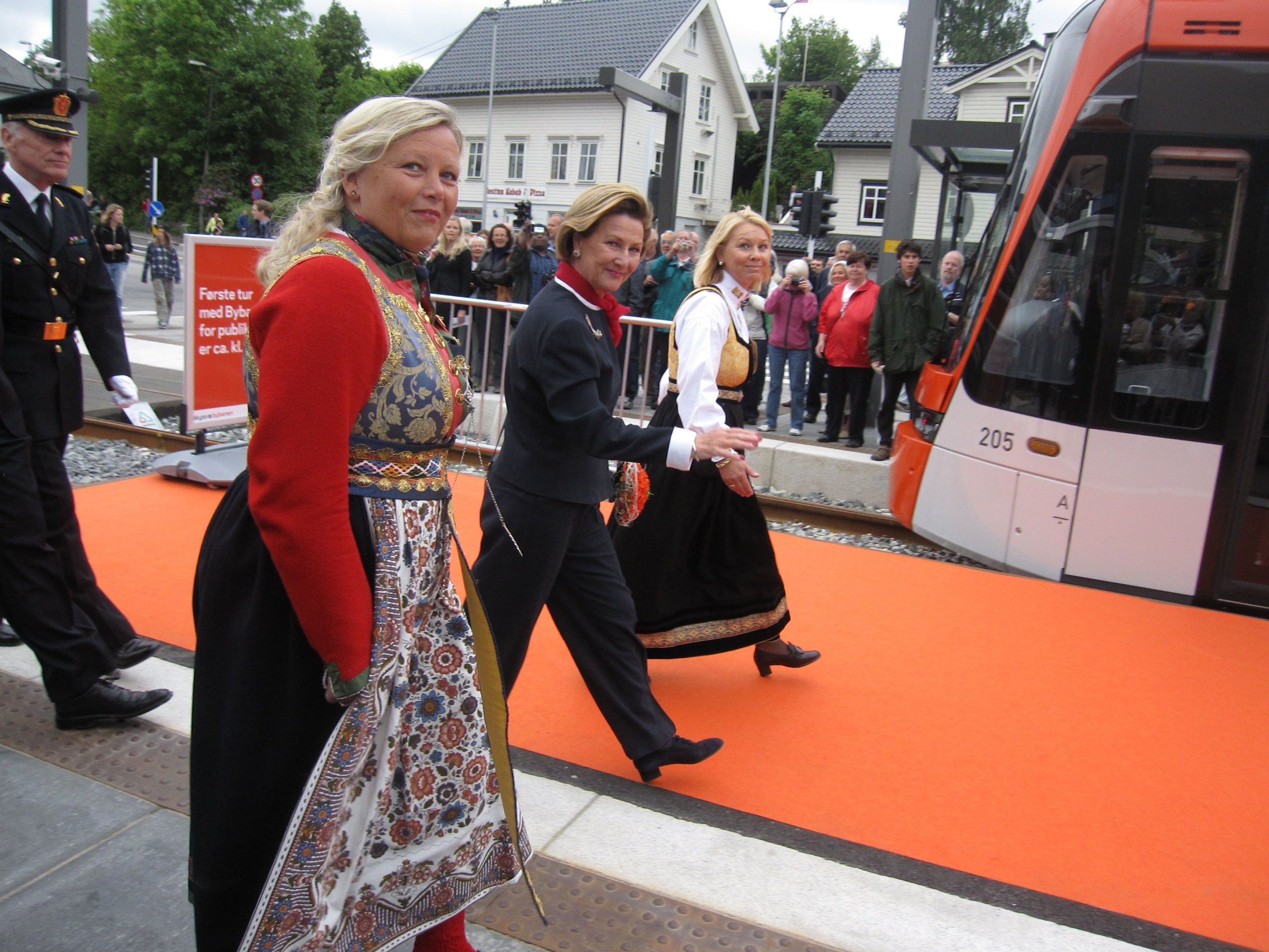 The queen of Norway enters the Bergen Light Rail for transportation to the official opening ceremony.